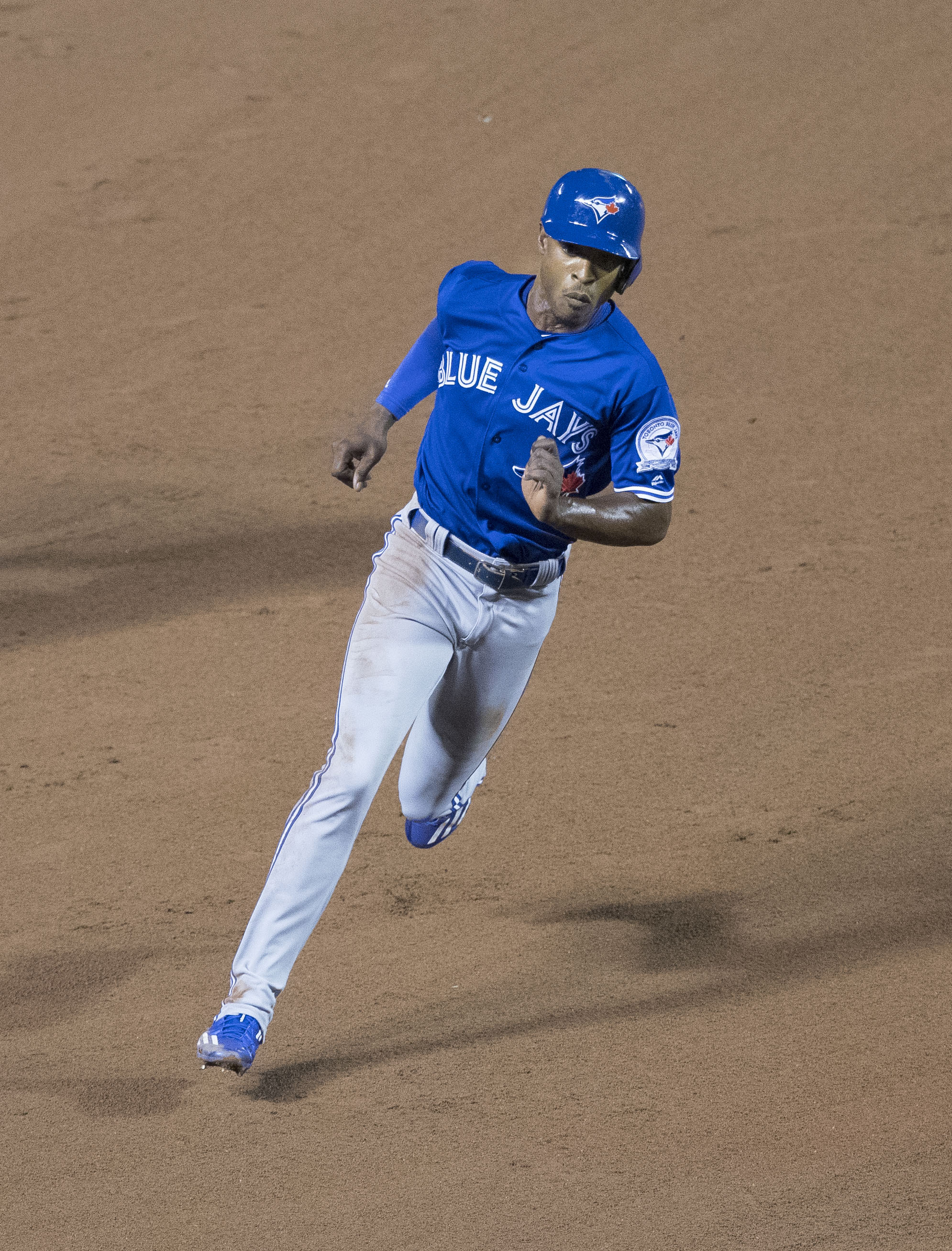 Melvin Upton Jr. running the bases. Toronto Blue Jays at Baltimore Orioles on 29 August 2016.